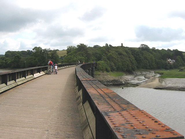 The Tarka Trail Cycleway crossing the Torridge, Devon, England